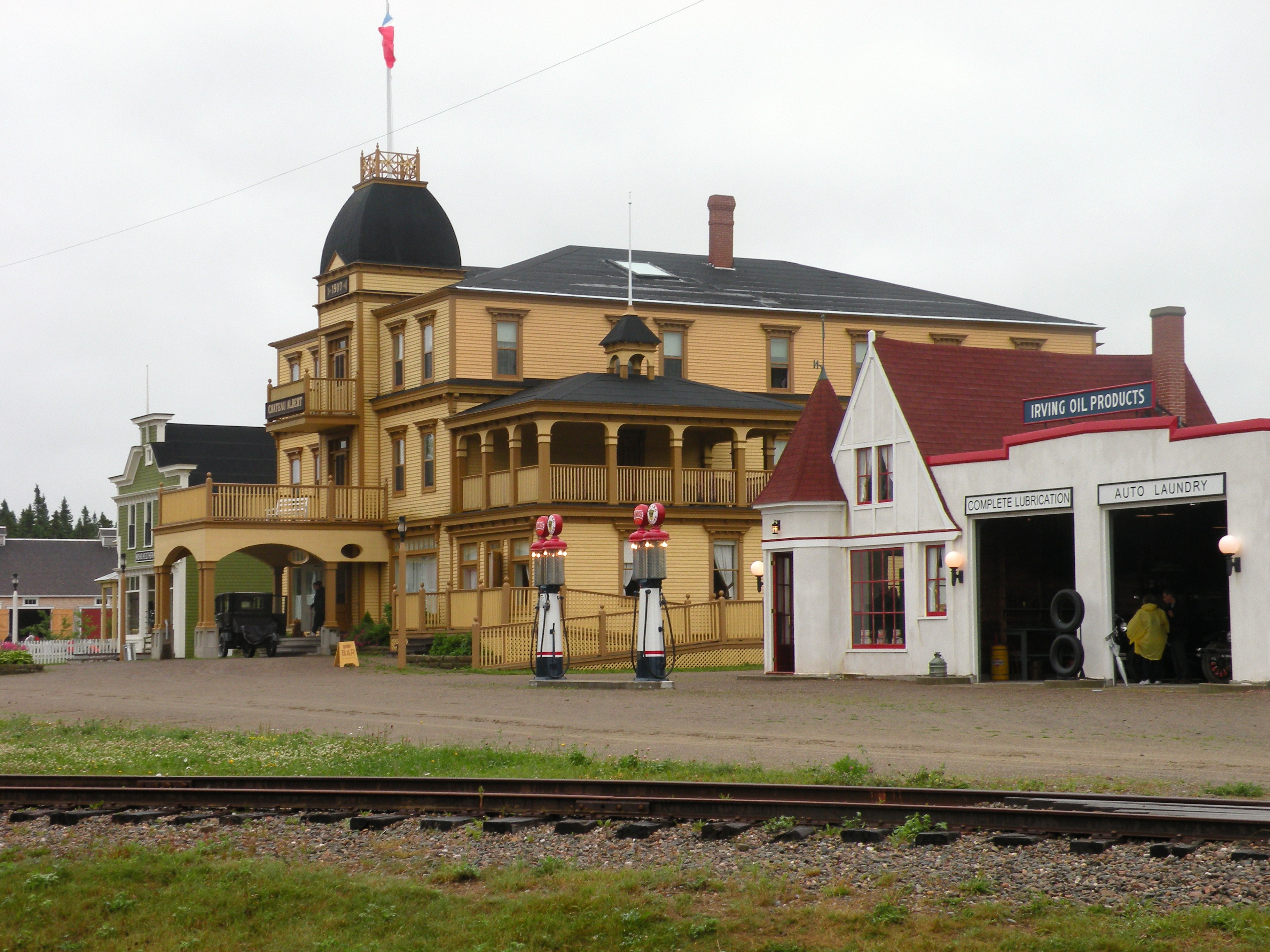 The Château Albert hotel and the Irving gas station at the Acadian historic settlement.